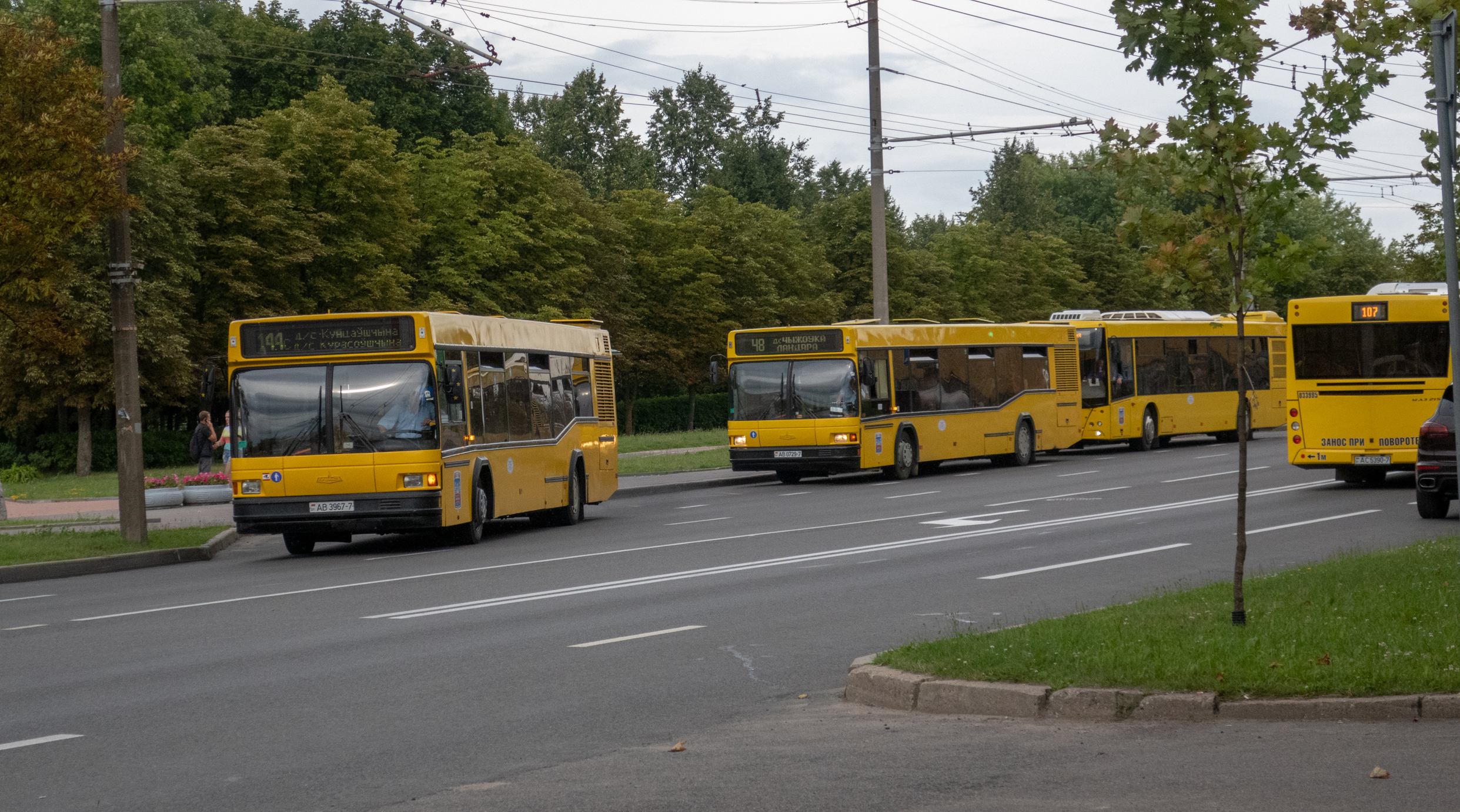 Karžanieŭskaha street (Minsk, Belarus)